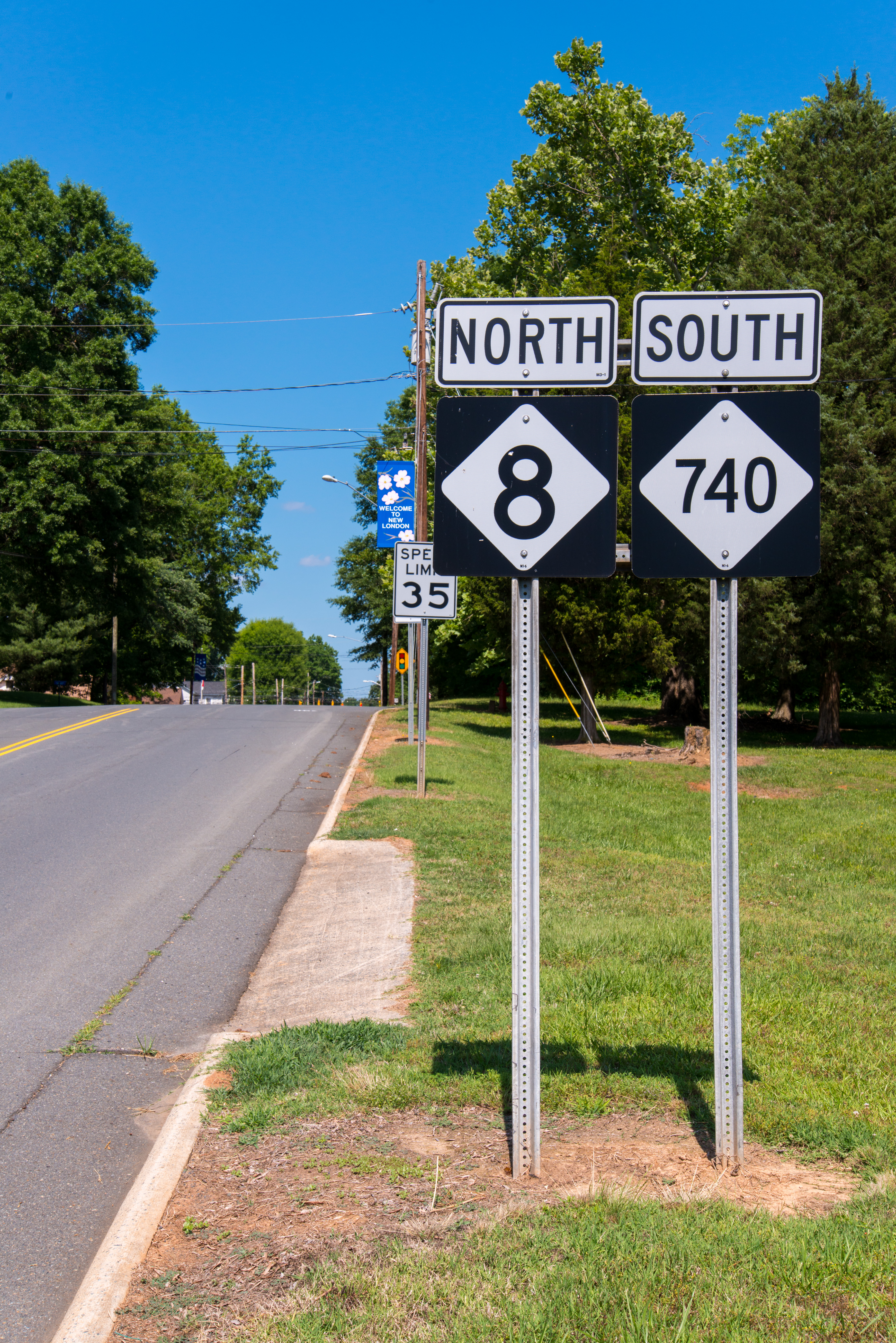 First signs of North NC 8 and South NC 740, located in New London, North Carolina.